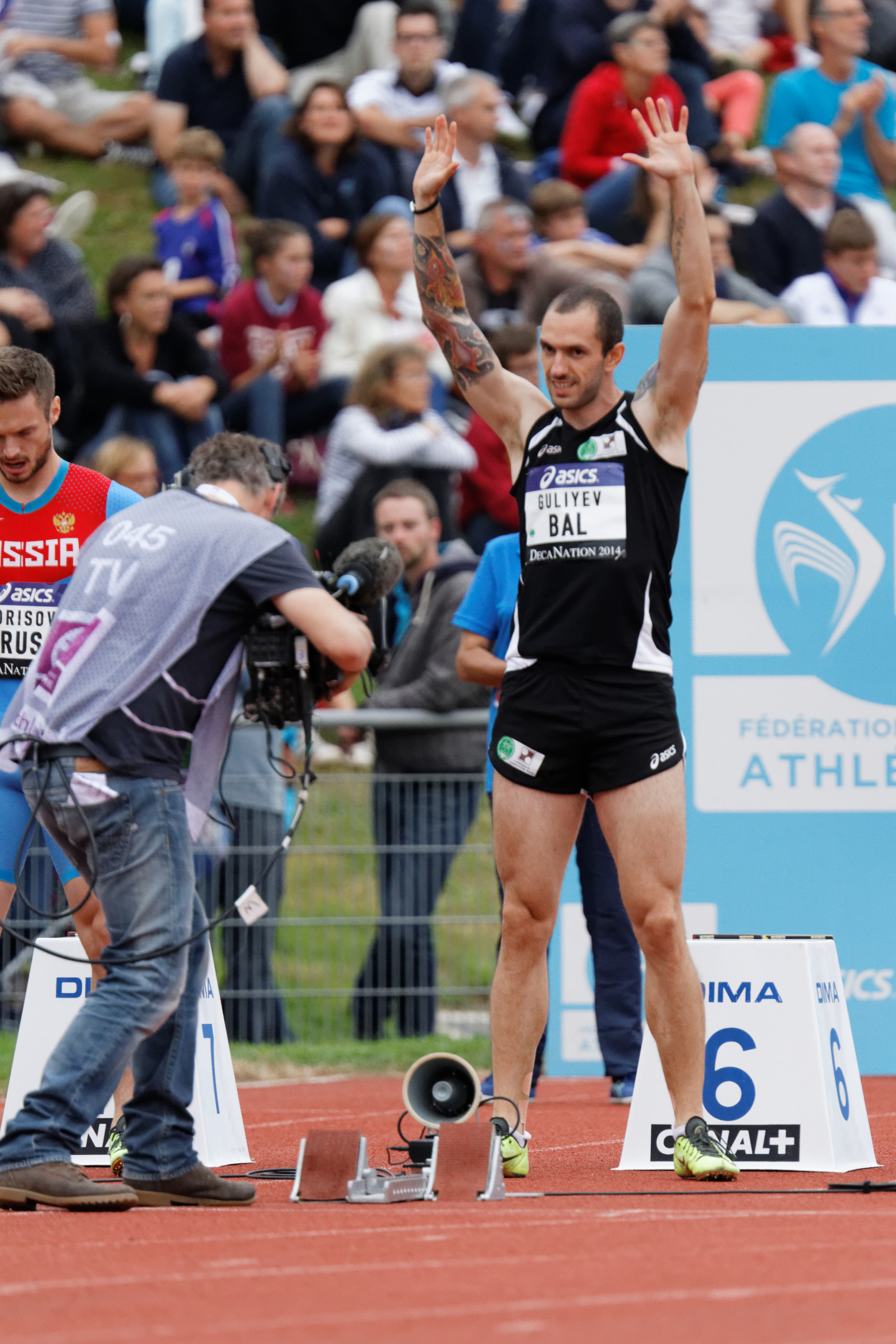 DécaNation 2014. 100m.